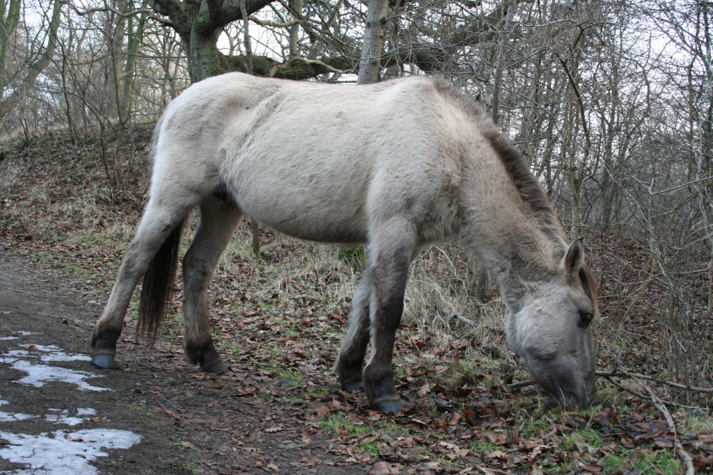 Konik, IJmuiden, the Netherlands